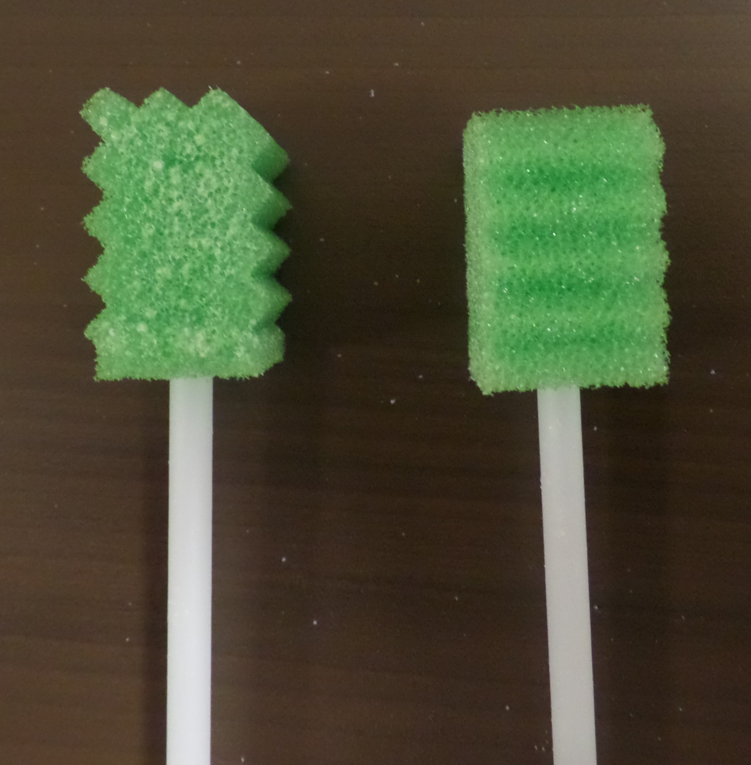 Two side views of the toothette's sponge head.